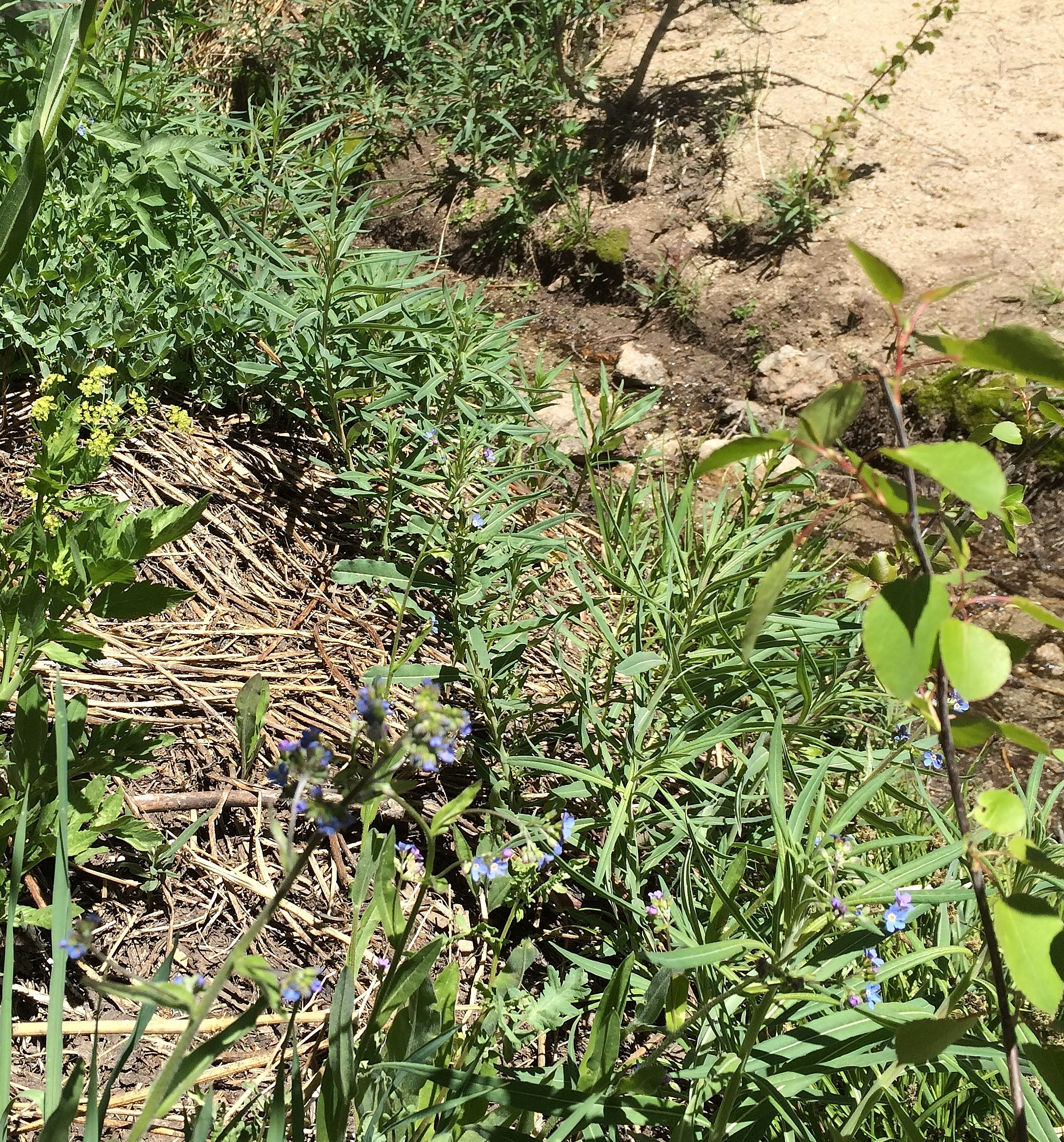 June rivulet just above Tahoe Rim Trail east of Highway 431 with Jessica's stickseed (Hackelia micrantha) blue flowers